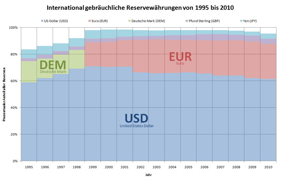 Percentage of global currency reserves held in the particular currency between 1995 and 2010.